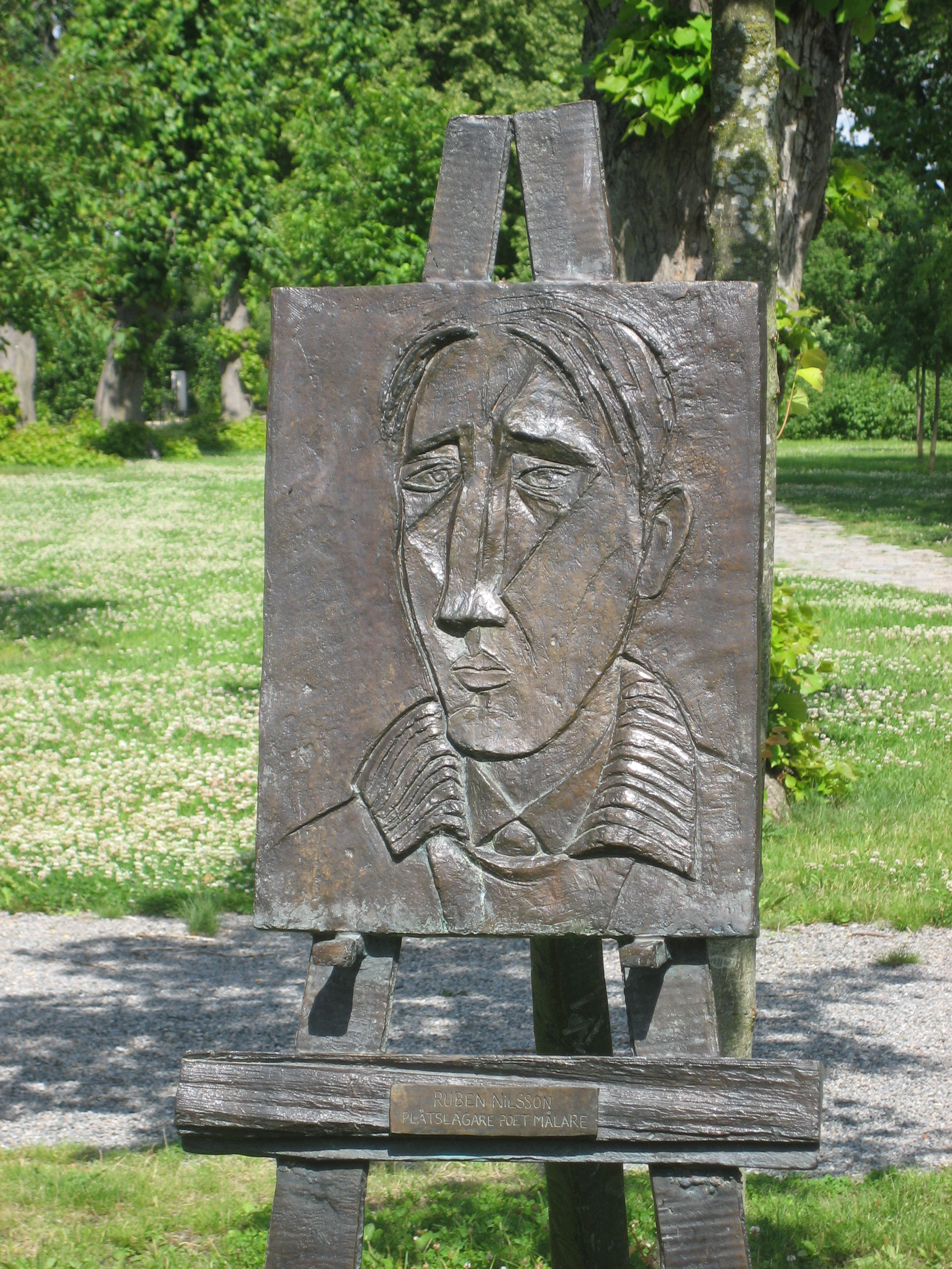 Sculpture by Bitte Jonason Åkerlund in memory of Swedish songwriter Ruben Nilson, in Örby Slottspark, Älvsjö, Sweden.